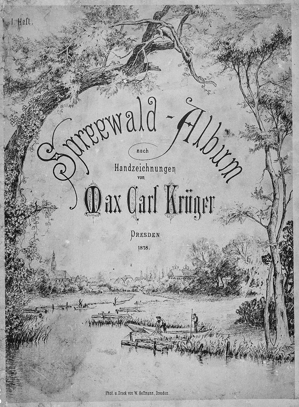 Spreewald-Album 1878, Titelblatt